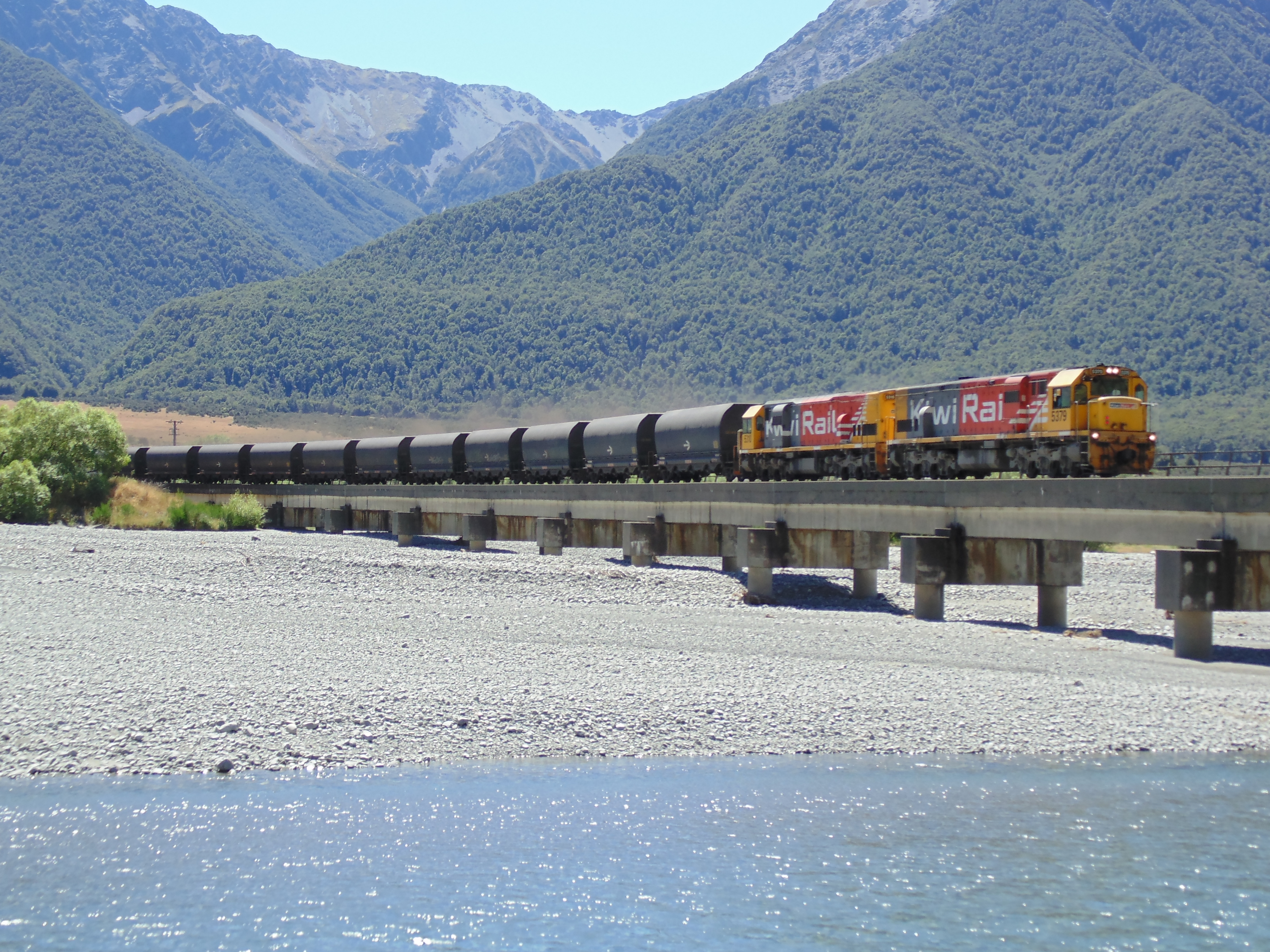 TrainboyMBH